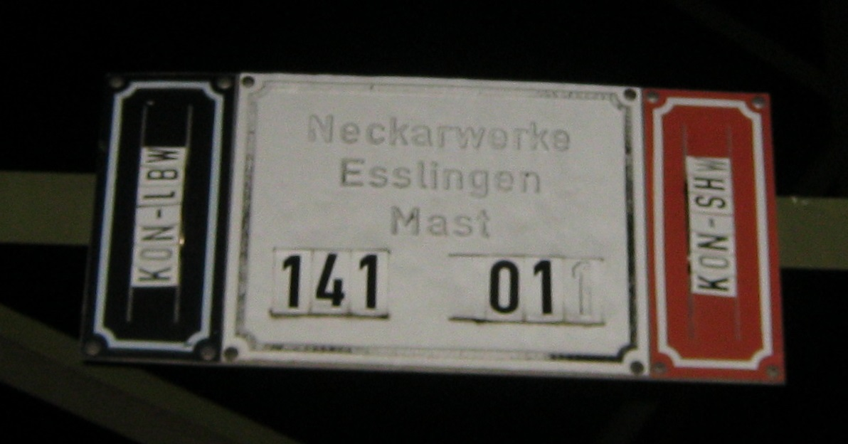 Tag at an electricity pylon at Kornwestheim